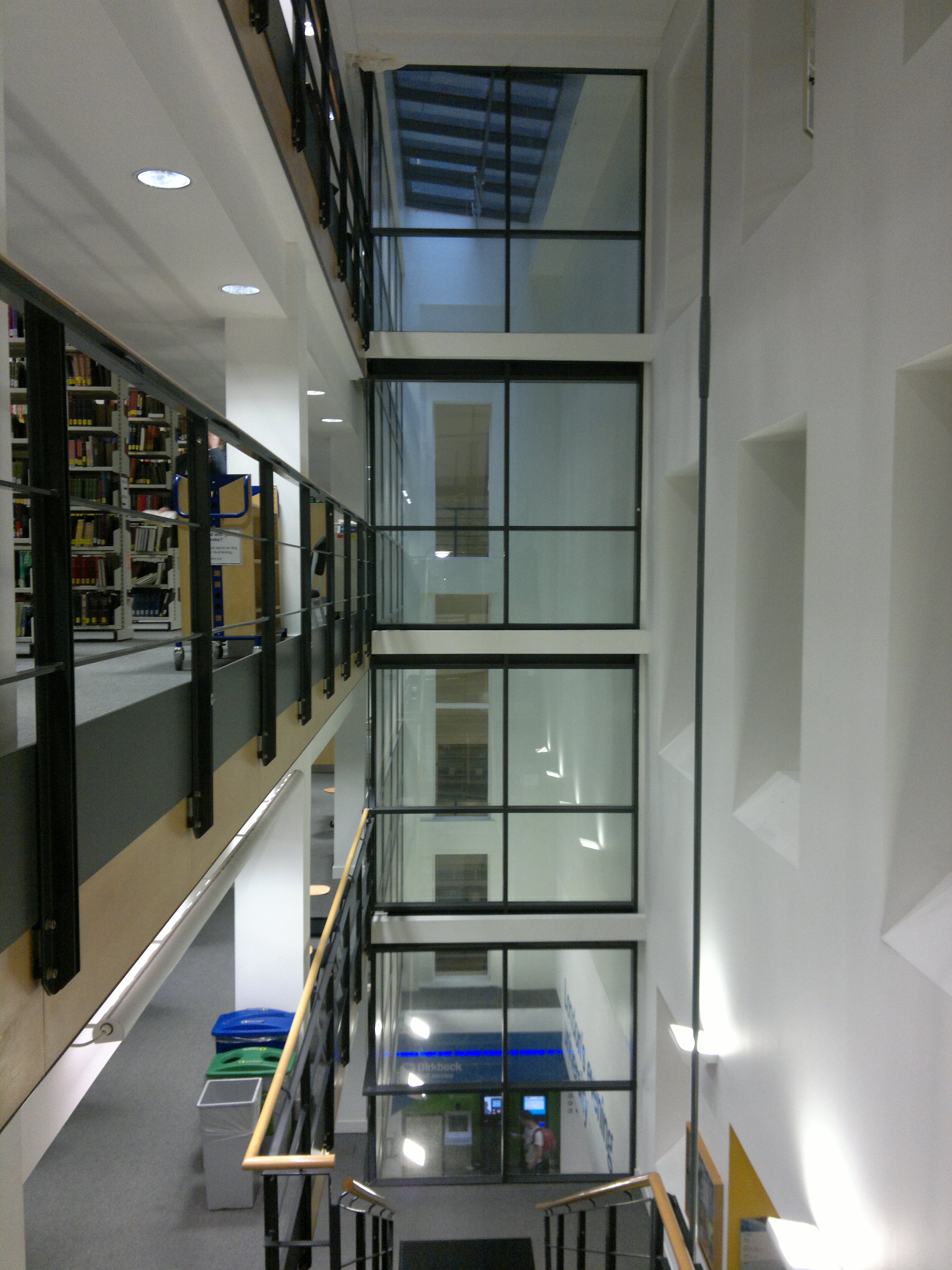 Birkbeck College library interior 11.06.13.